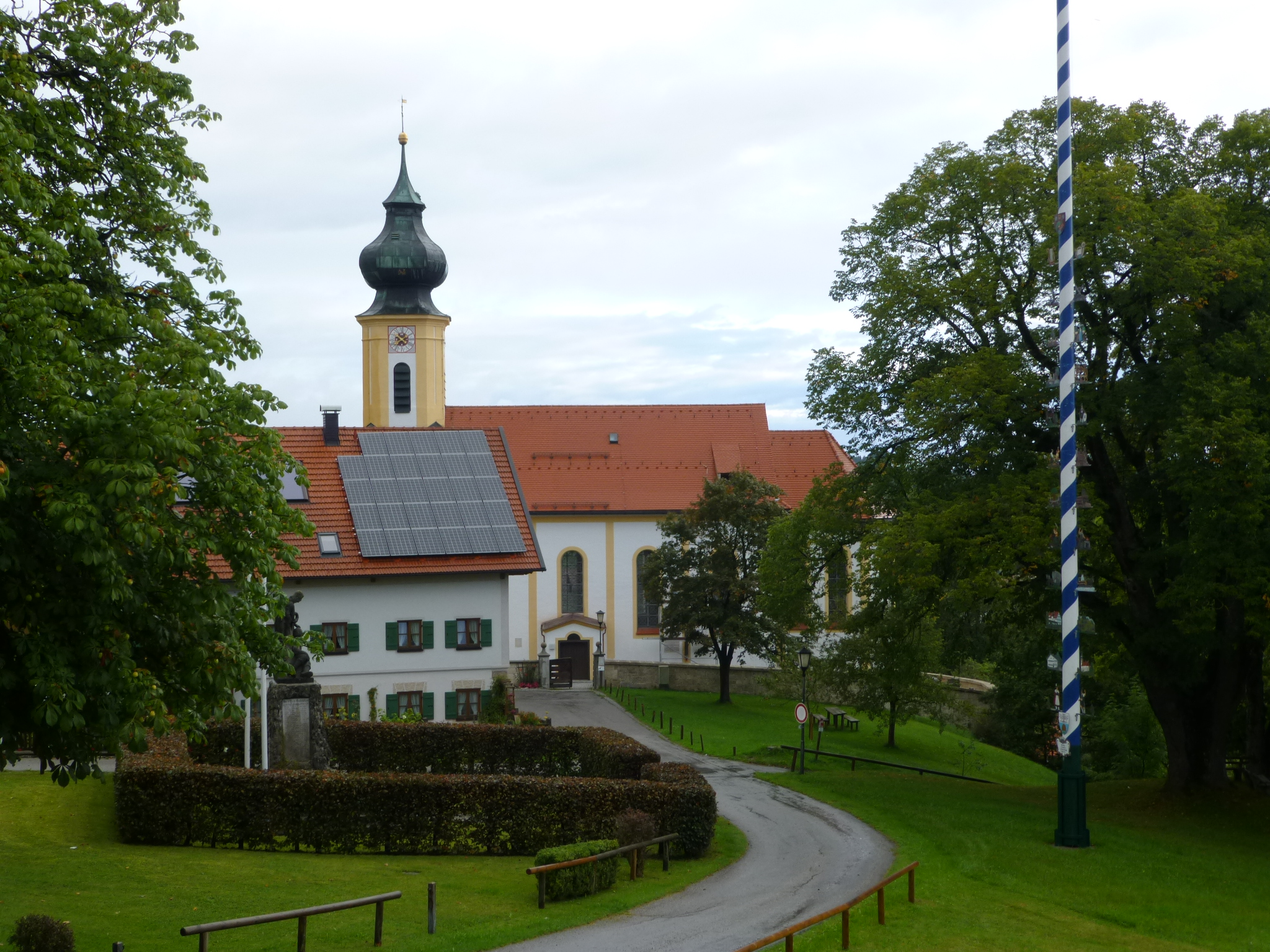 Village of Wildsteig, St Jakob church, Maypole. Seen from Landhotel Zur Post (Kirchbergstrasse), Upper Bavaria.